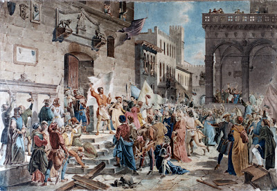 Il tumulto dei ciompi by Giuseppe Lorenzo Gatteri (18 September 1829 - 1 December 1884)